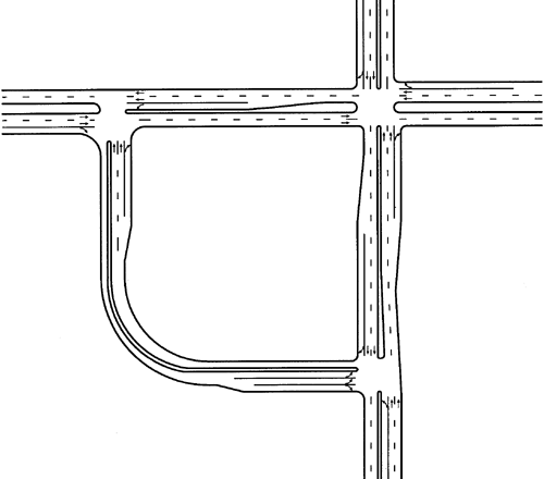 diagram of a quadrant intersection design